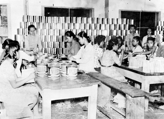 Margarine factory of Lever, filling the tins, Indonesia